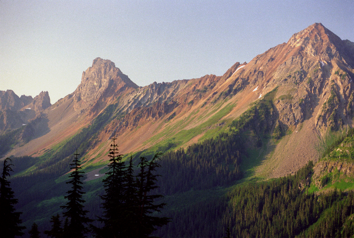 American Border Peak seen from Gold Run Pass, in the North Cascades of Washington. The neighboring Canadian Border Peak in partially visible at the left.